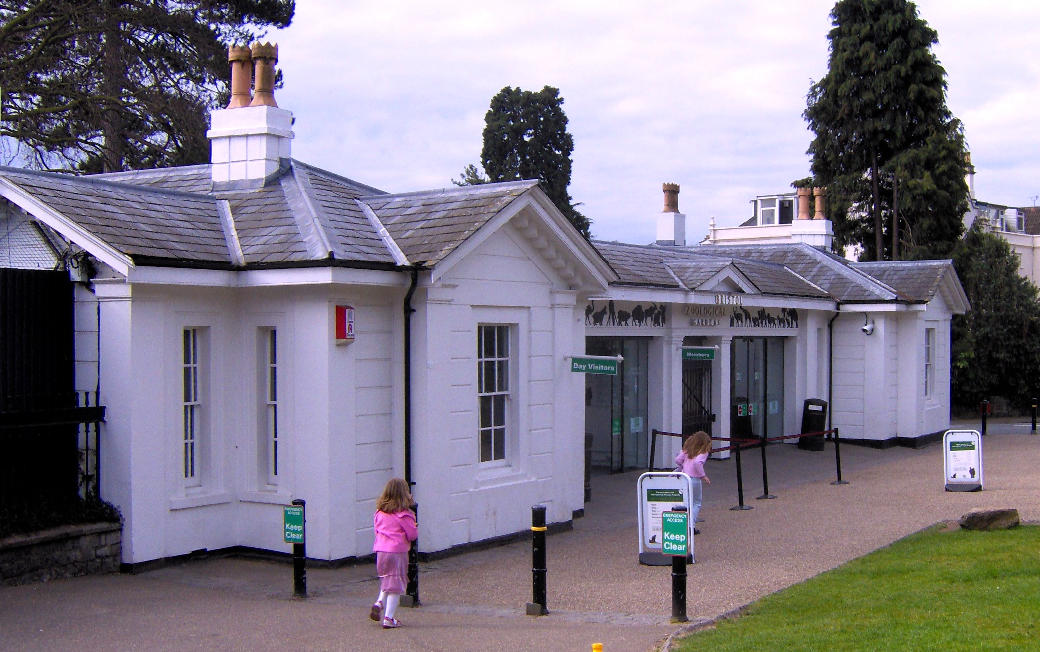 Main entrance to Bristol Zoo. Taken by Rod Ward 10th April 2007